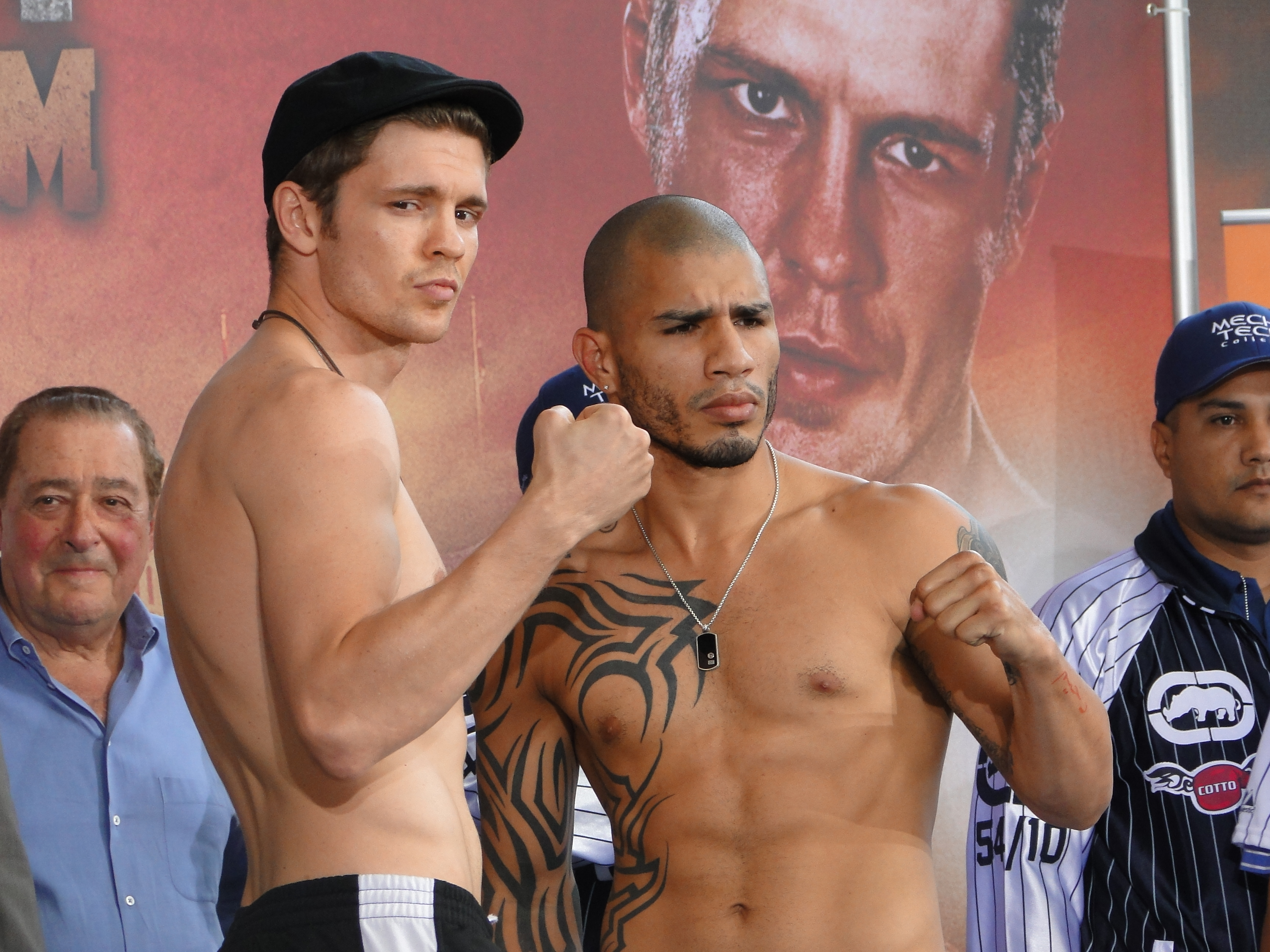 Yuri Foreman (on the left) and Miguel Cotto at the official weigh-in on June 4, 2010